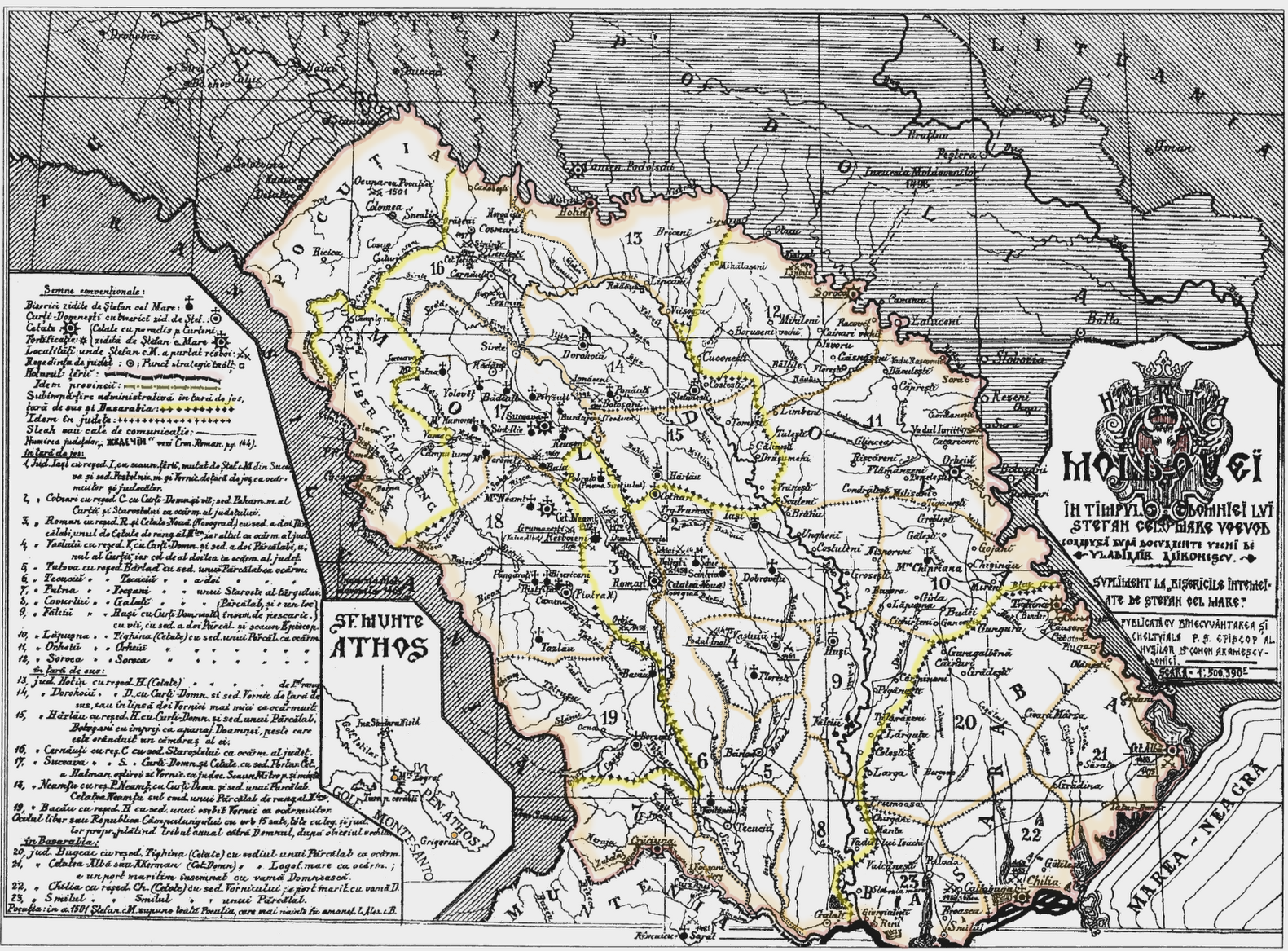 Map of Moldova under Ştefan cel Mare's reign